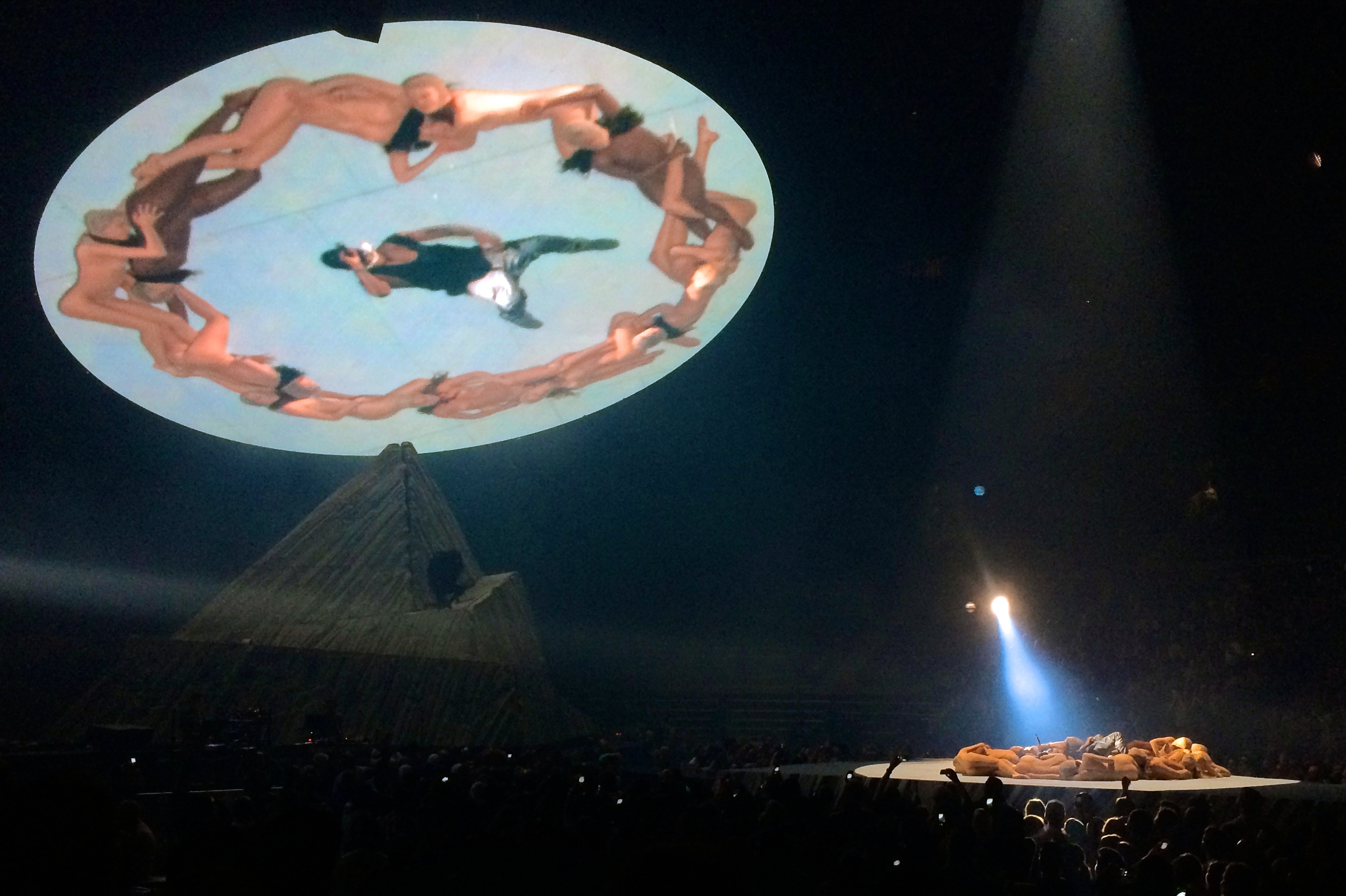 The Yeezus Tour stage with Kanye West laying on the main stage with other dancers showing on a circular LED screen above Mount Yeezus.